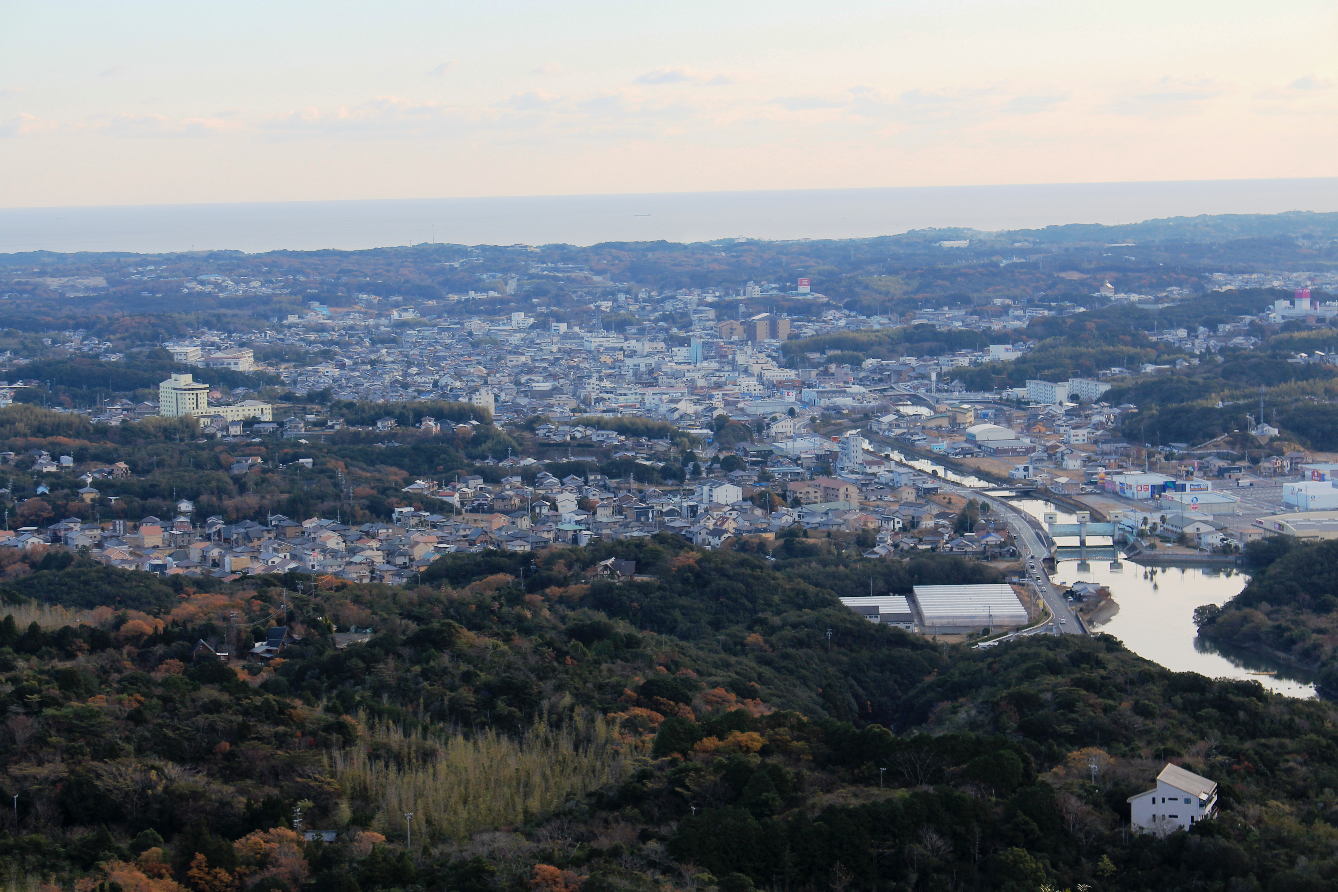 Shima city (Ago) seen from Yokoyama Viewpoint, in Shima, Mie prefecture, Japan.